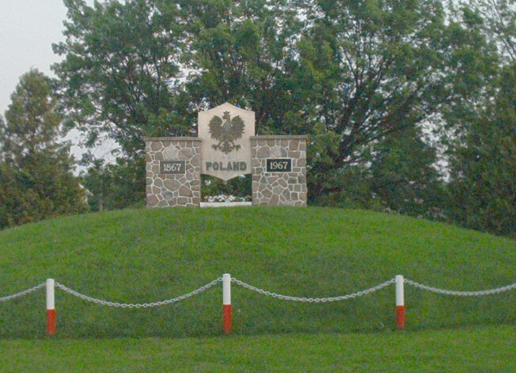 The monument representing Poland at the Thunder Bay Soroptimist International Friendship Gardens.